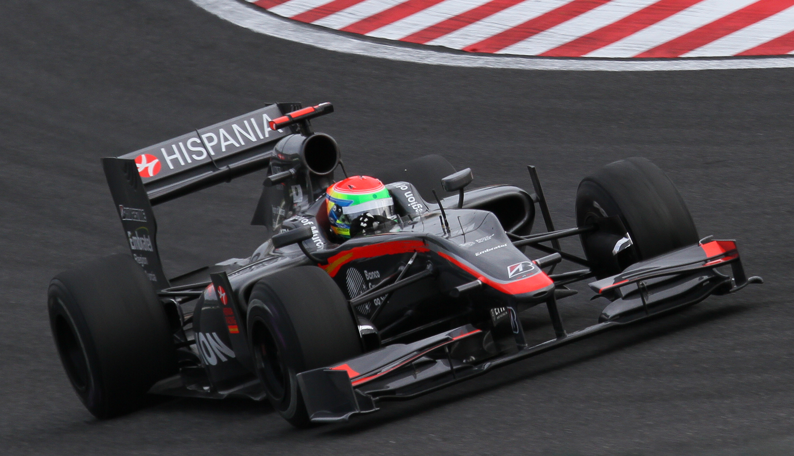 Formula One 2010 Rd.16 Japanese GP: Sakon Yamamoto (Hispania Racing) during Friday 2nd Free Practice session on Suzuka Circuit.